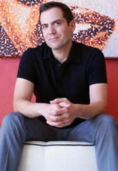 Artist Robert A. Delgadillo (RAD) photographed in 2011. Other information I have permission of the artist to use this photo in any capacity.